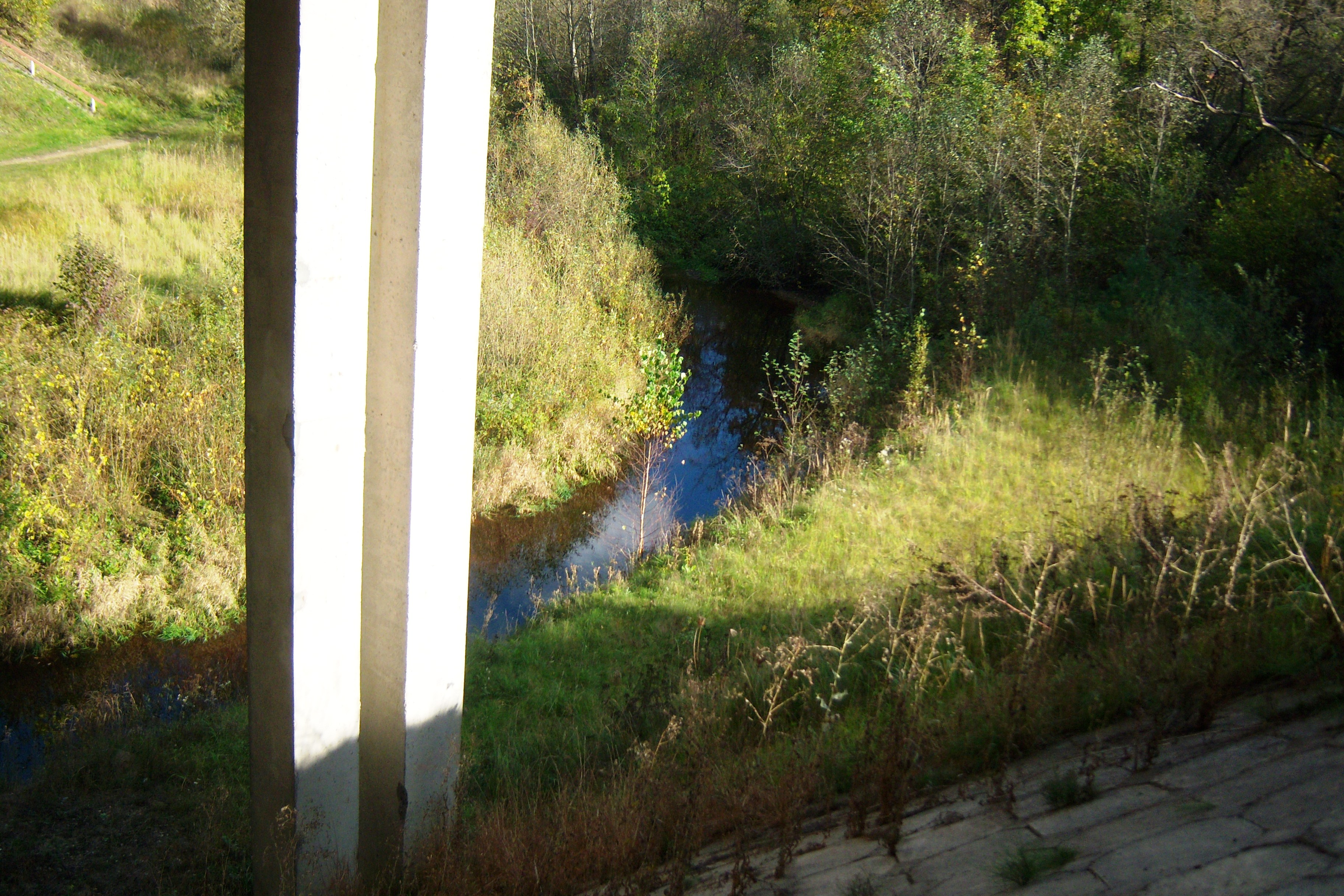 Šešuva River. Under road from Karmėlava to Jonava, Lithuania